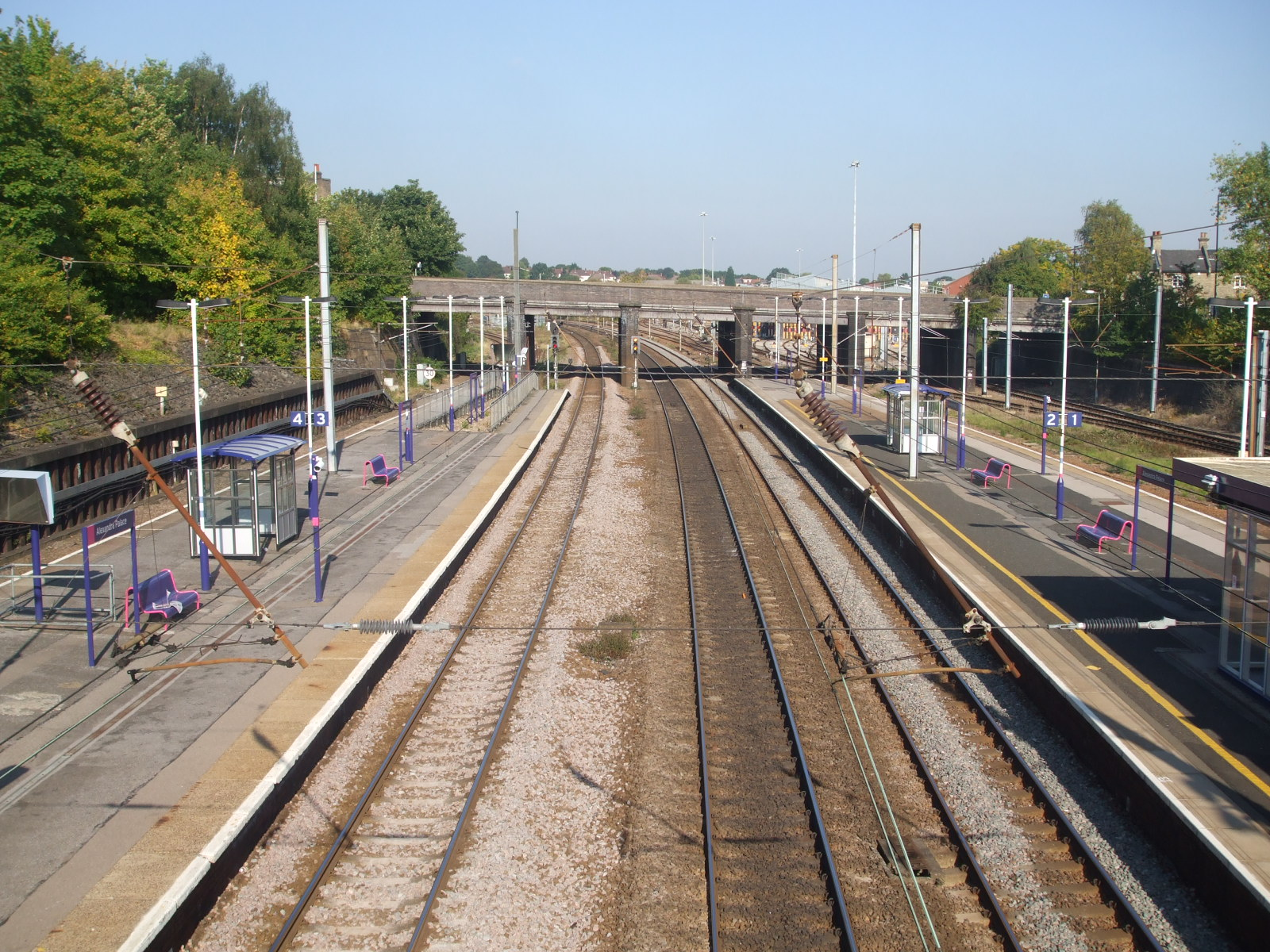 Alexandra Palace station looking north from footbridge. Bounds Green Depot visible ahead in the distance.